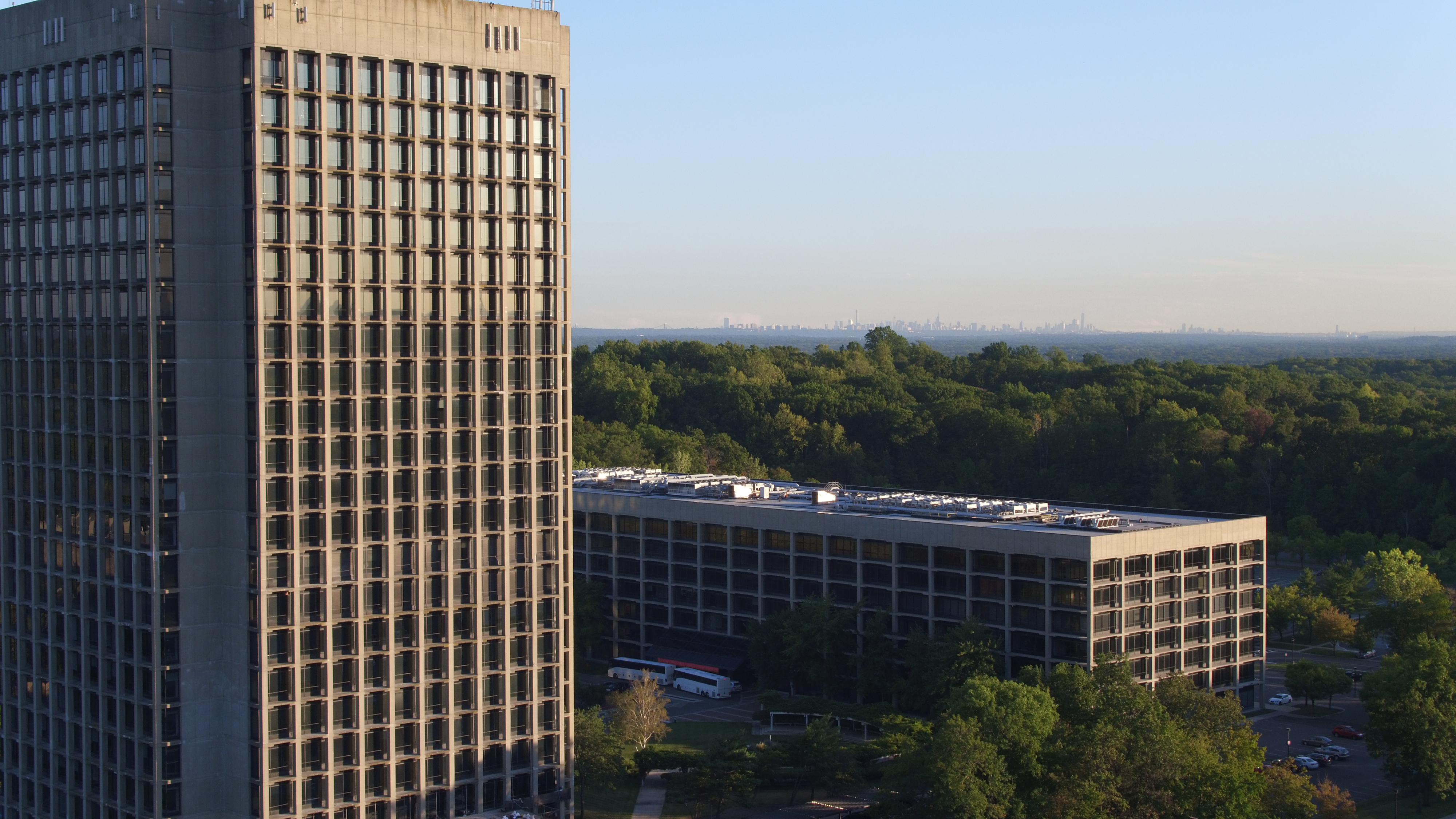 Office Space in Pearl River